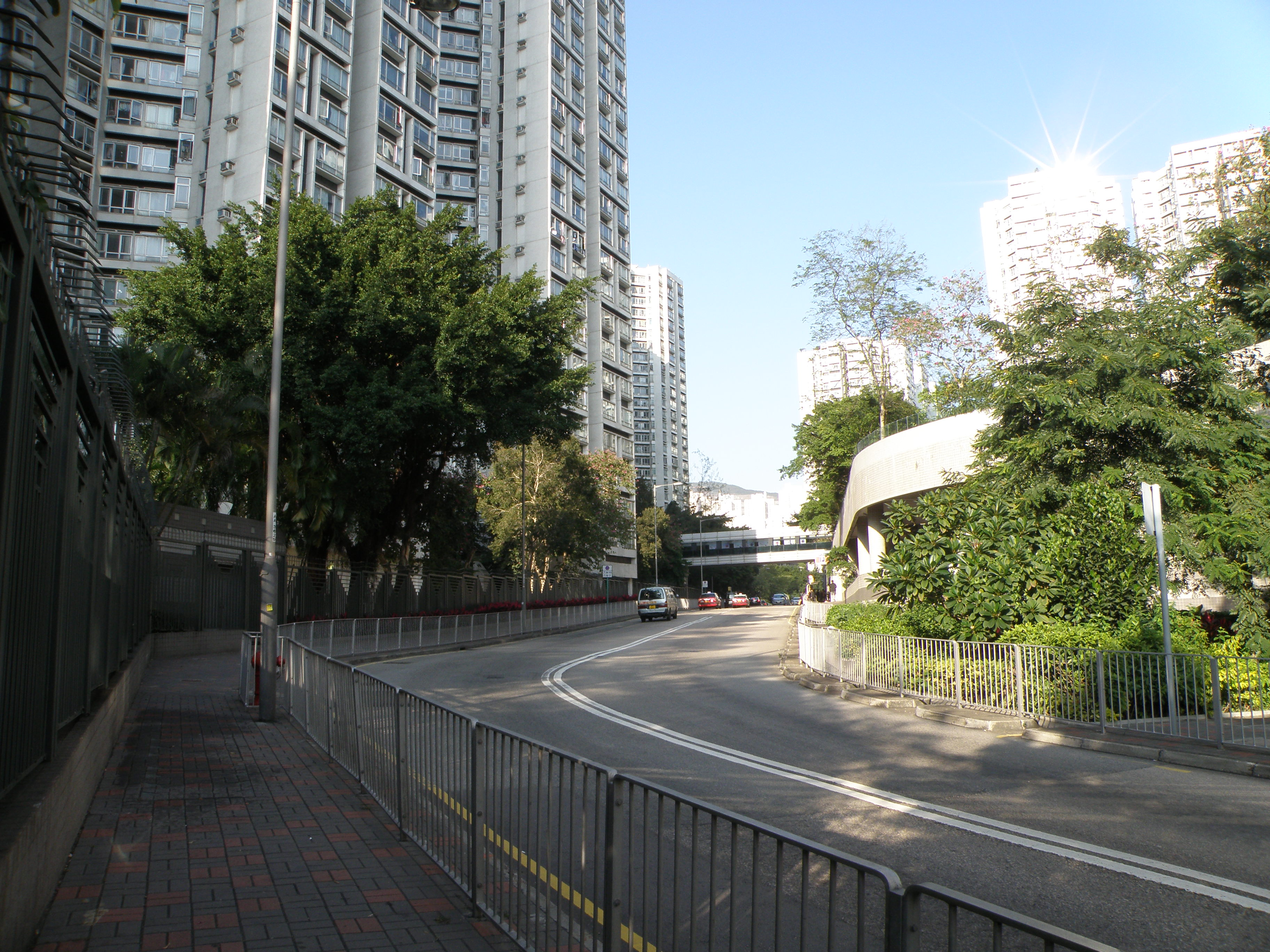 Cha Kwo Ling Road (Laguna City section) in Lam Tin, Hong Kong.